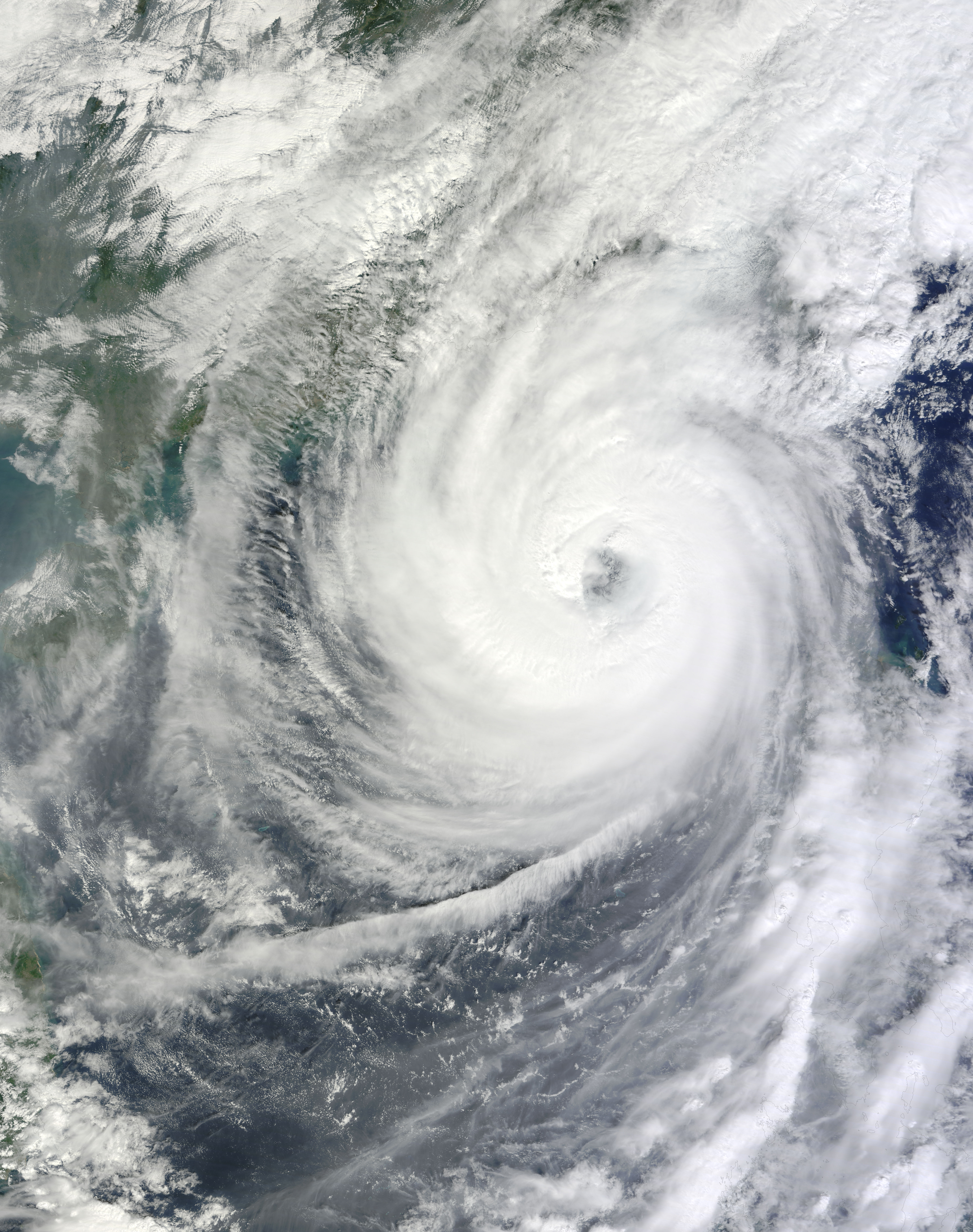 Typhoon Megi (15W) approaching China